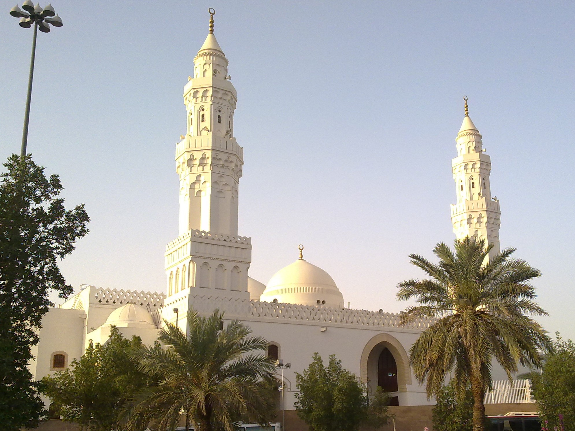 Masjid al-Qiblatain (Mosque of the two Qiblas) is a mosque in Medina